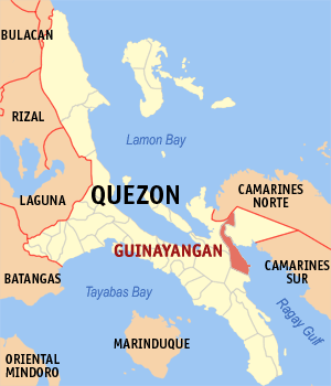 Map of Quezon showing the location of Guinayangan